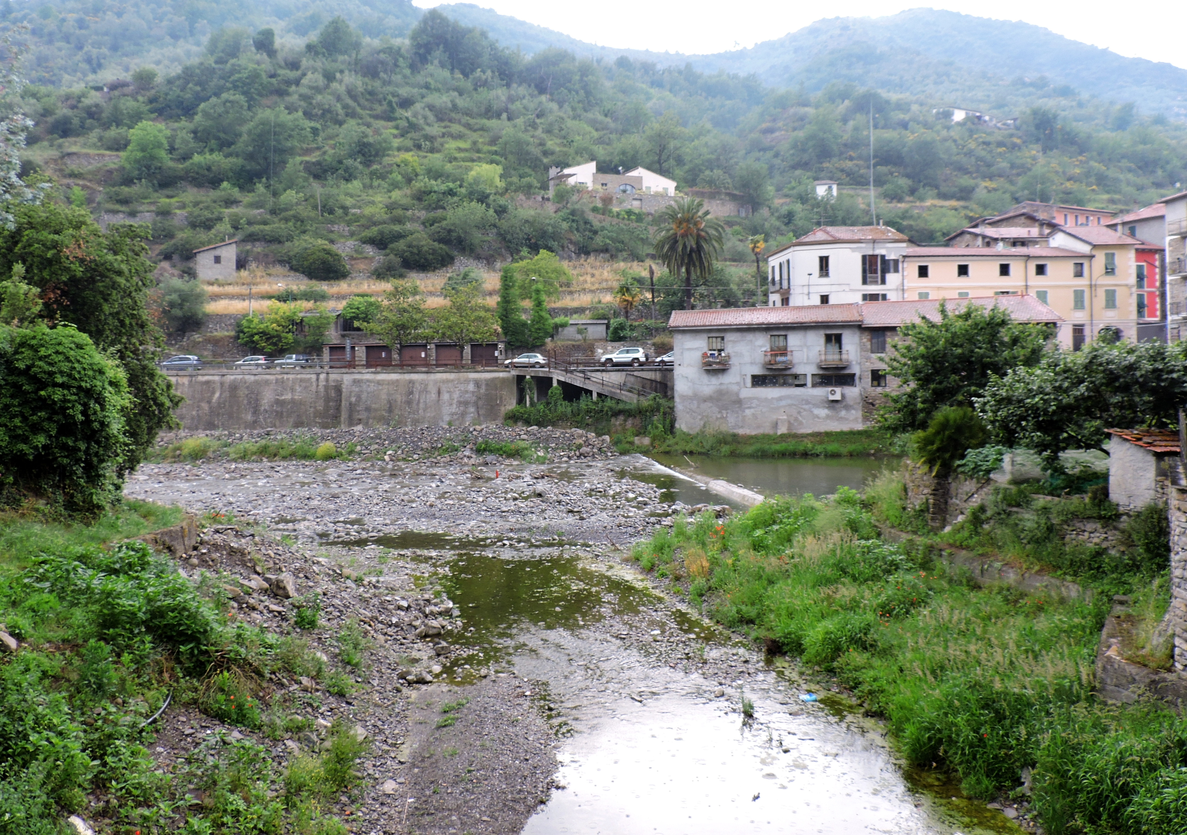 Merdanzo and Nervia: confluence in Isolabona (IM, Italy)